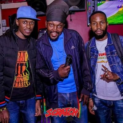 kenyand dancehall reggae artist